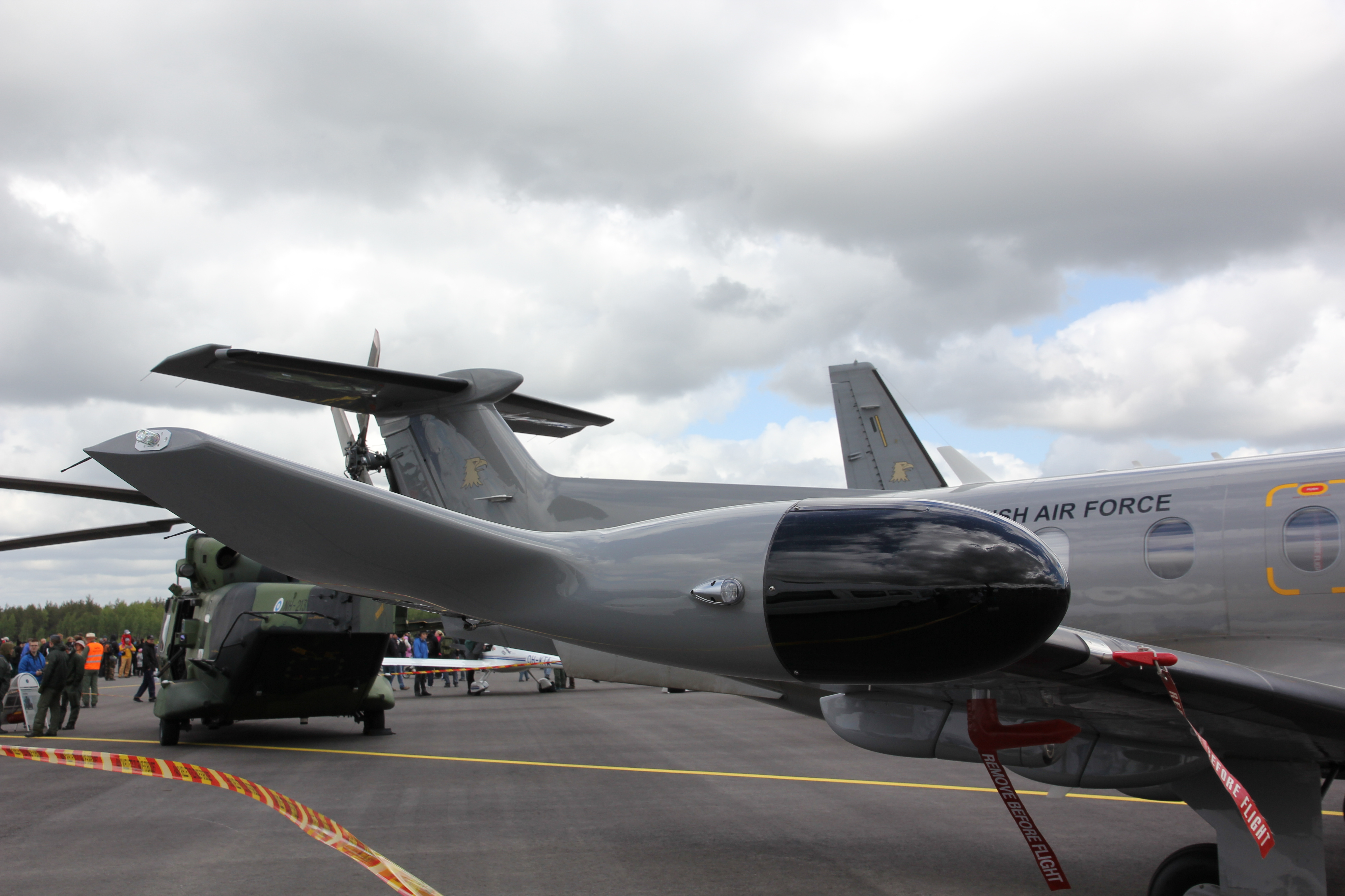 Finnish air force Pilatus PC-12NG (PI-02) on ground display in Turku Airshow 2015. Wingtip weather radar.